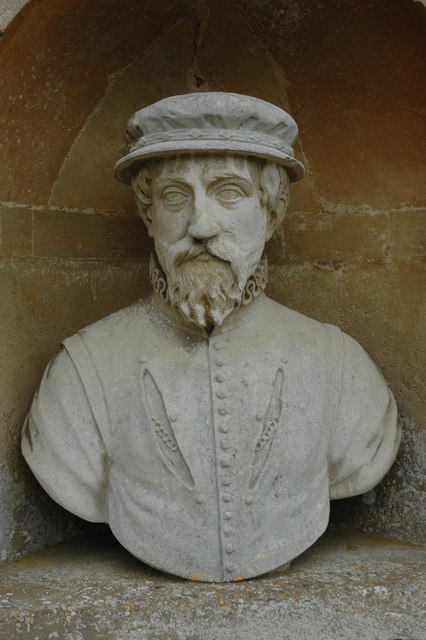 Sir Thomas Gresham, the Temple of British Worthies, Stowe